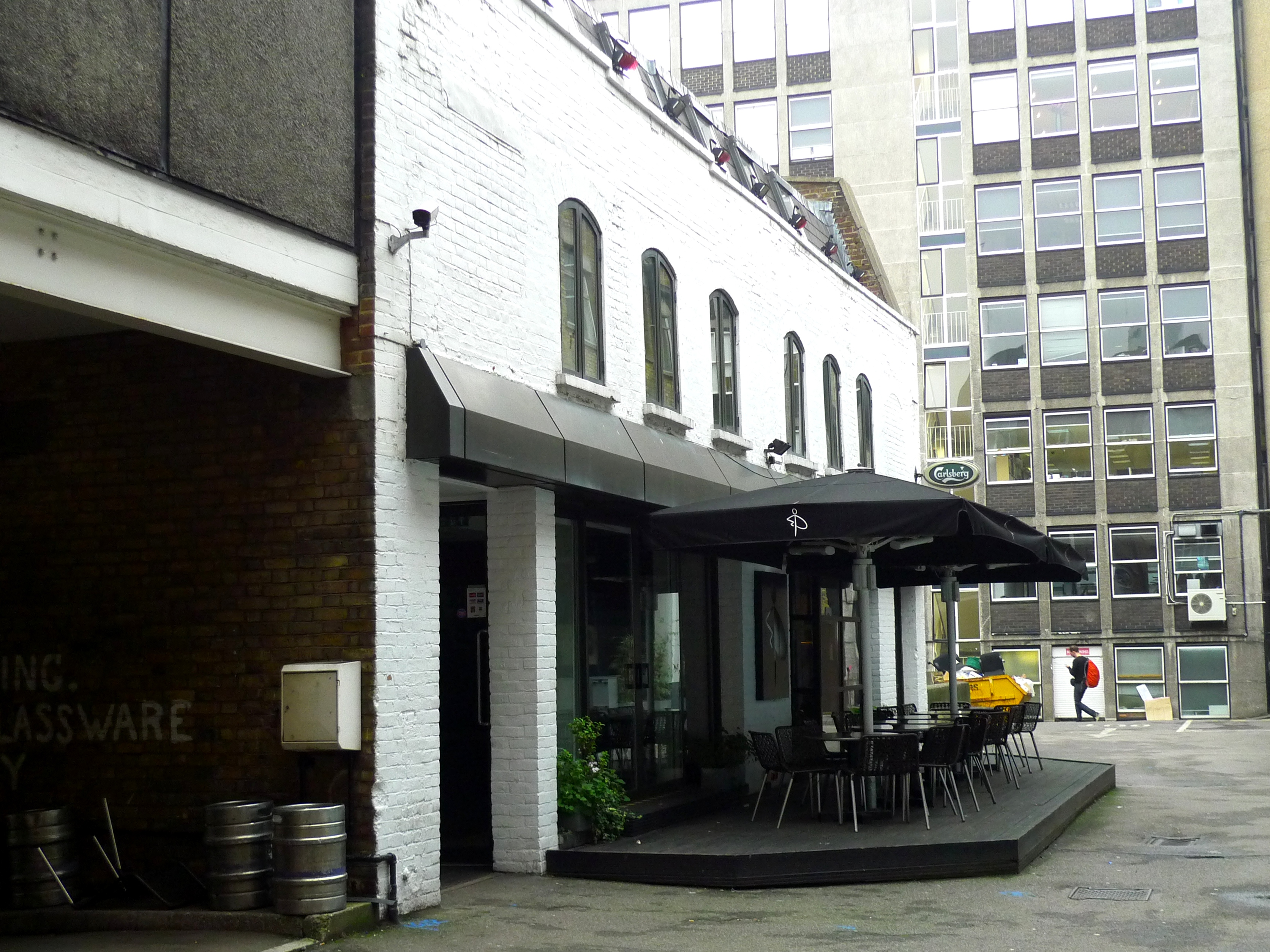 The Pregnant Man, a private pub at the London office of Saatchi & Saatchi, named after one of their earliest ad campaigns promoting safe sex. (A design based on the ad is visible on the awning and on a vertical sheet of metal on the wall underneath it.)